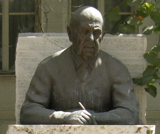 Photo of the statue of Giorgos Seferis, Greek poet.